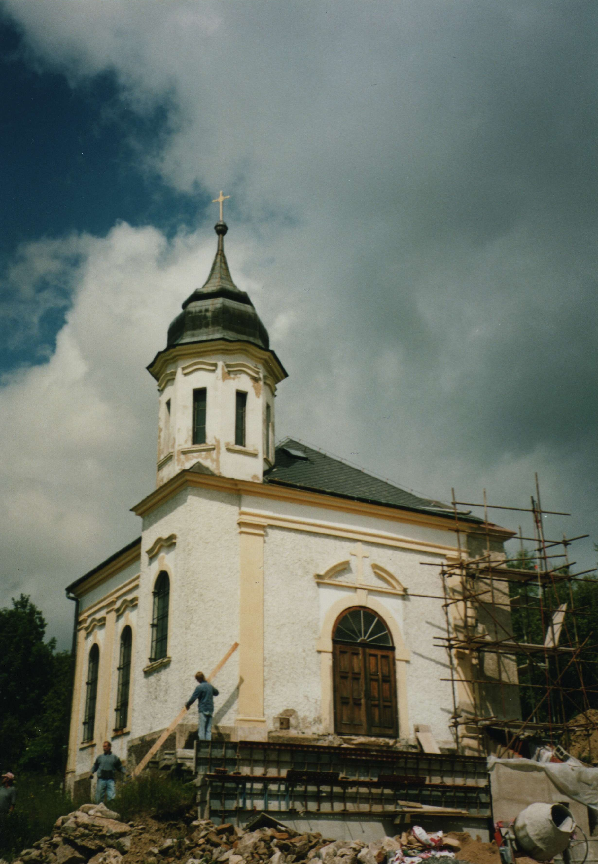 Church in Dlouhá Louka, Teplice District, Ústí nad Labem Region, Czech Republic